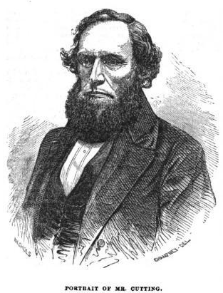 Portrait of James Ambrose Cutting. Illustration from: "Boston Aquarial and Zoological Gardens." Ballou's Dollar Monthly Magazine, v.16, no.1, July 1862.